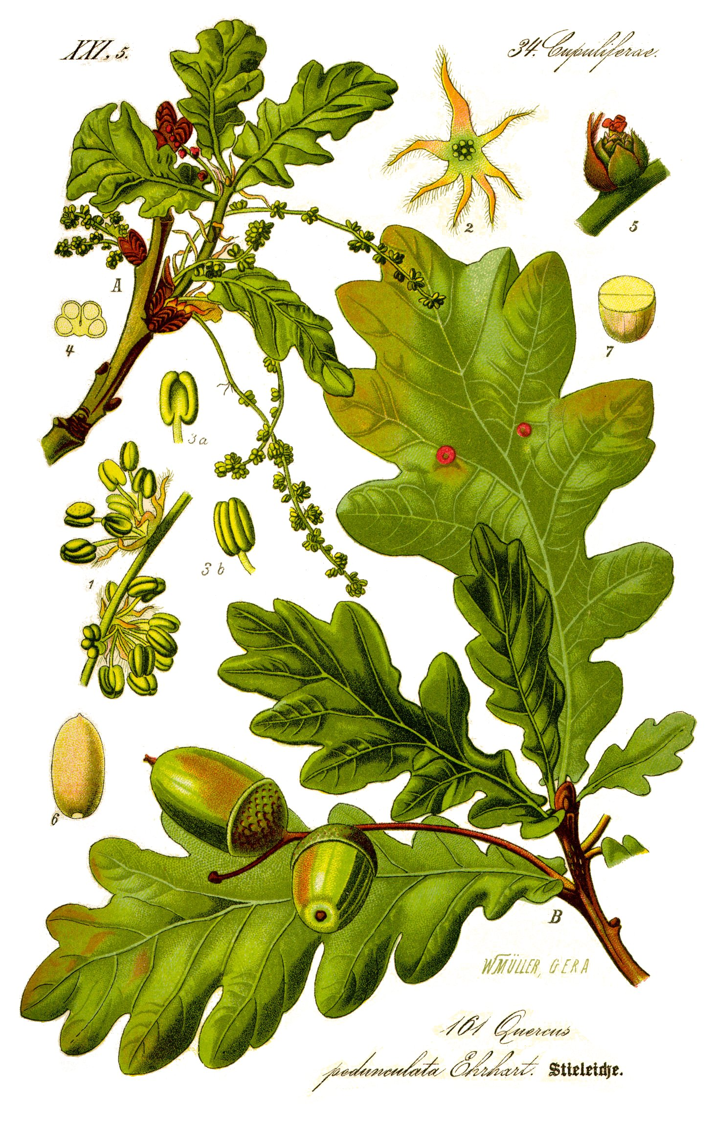 Clean version of Image:Illustration_Quercus_robur0.jpg Quercus robur.